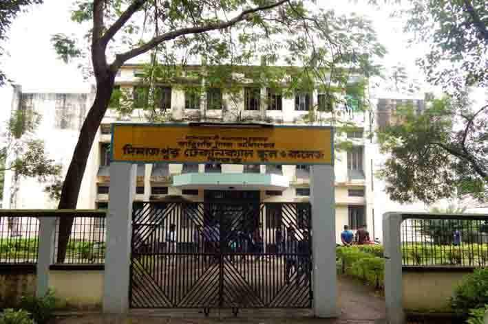 দিনাজপুর টেকনিক্যাল স্কুল এন্ড কলেজ